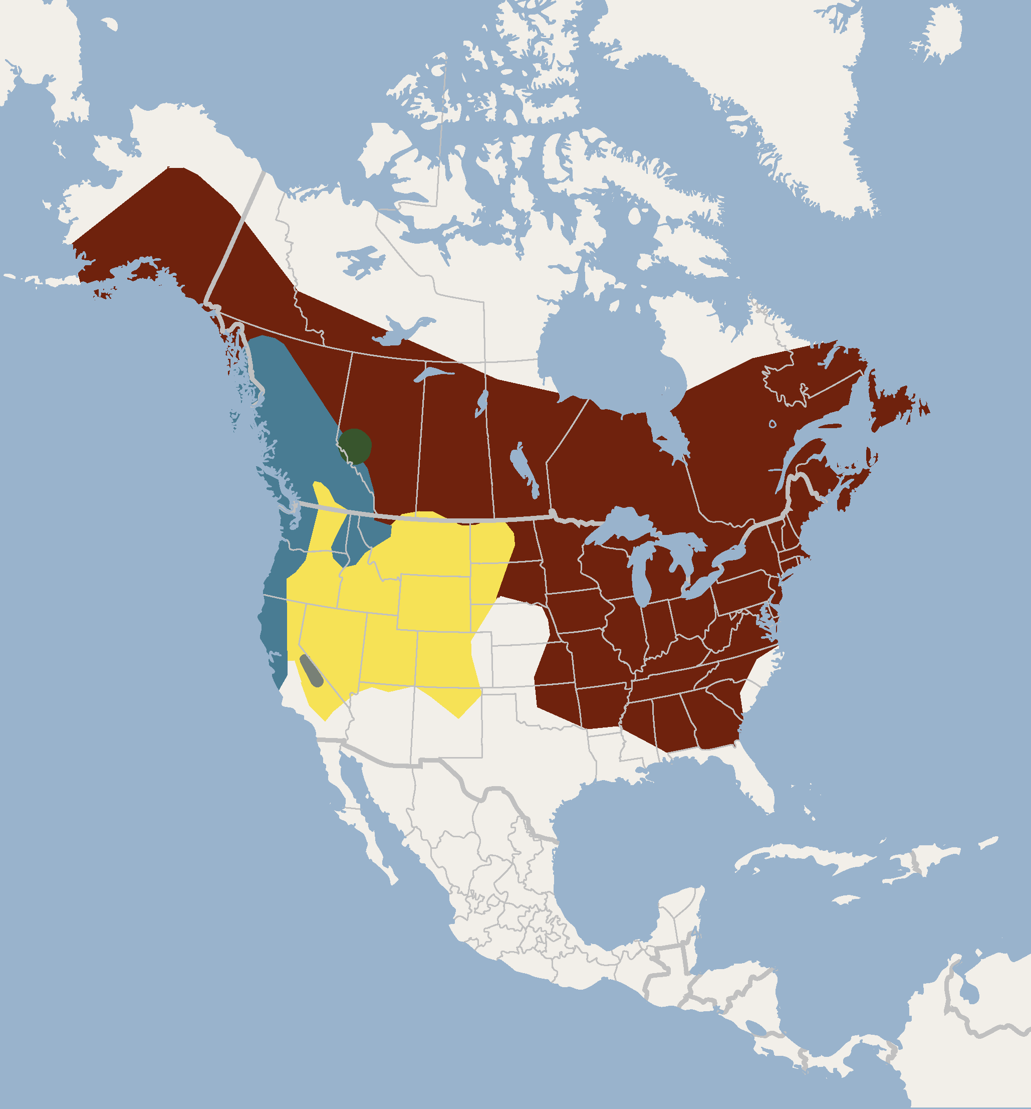 Geographical distribution of Myotis lucifugus according to Fenton & Barclay, 1980 (Fenton, M. B., Barclay, R. M. (1980). "Myotis lucifugus." Mammalian Species. No. 142, 1-8.)